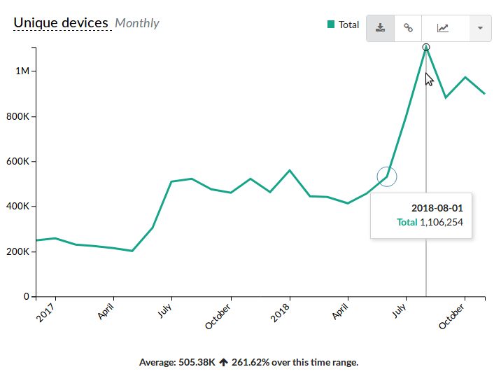 Telugu Wikipedia access by Unique Devices 201811 tool link